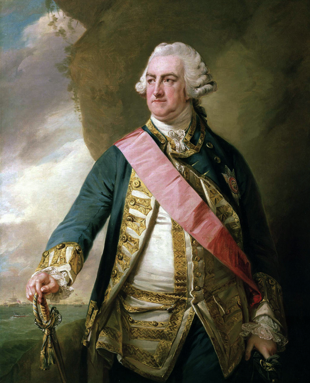 Portrait in three-quarter-length showing the sitter turning to the right but facing towards the left. He wears flag-officer's undress uniform, 1767-83, of blue jacket and gold braid with the ribbon and star of the Order of Bath and a tie-wig. He holds his sword in his right hand and stands against a rocky background with, on the left, the fleet at anchor together with a barge flying the Union flag.